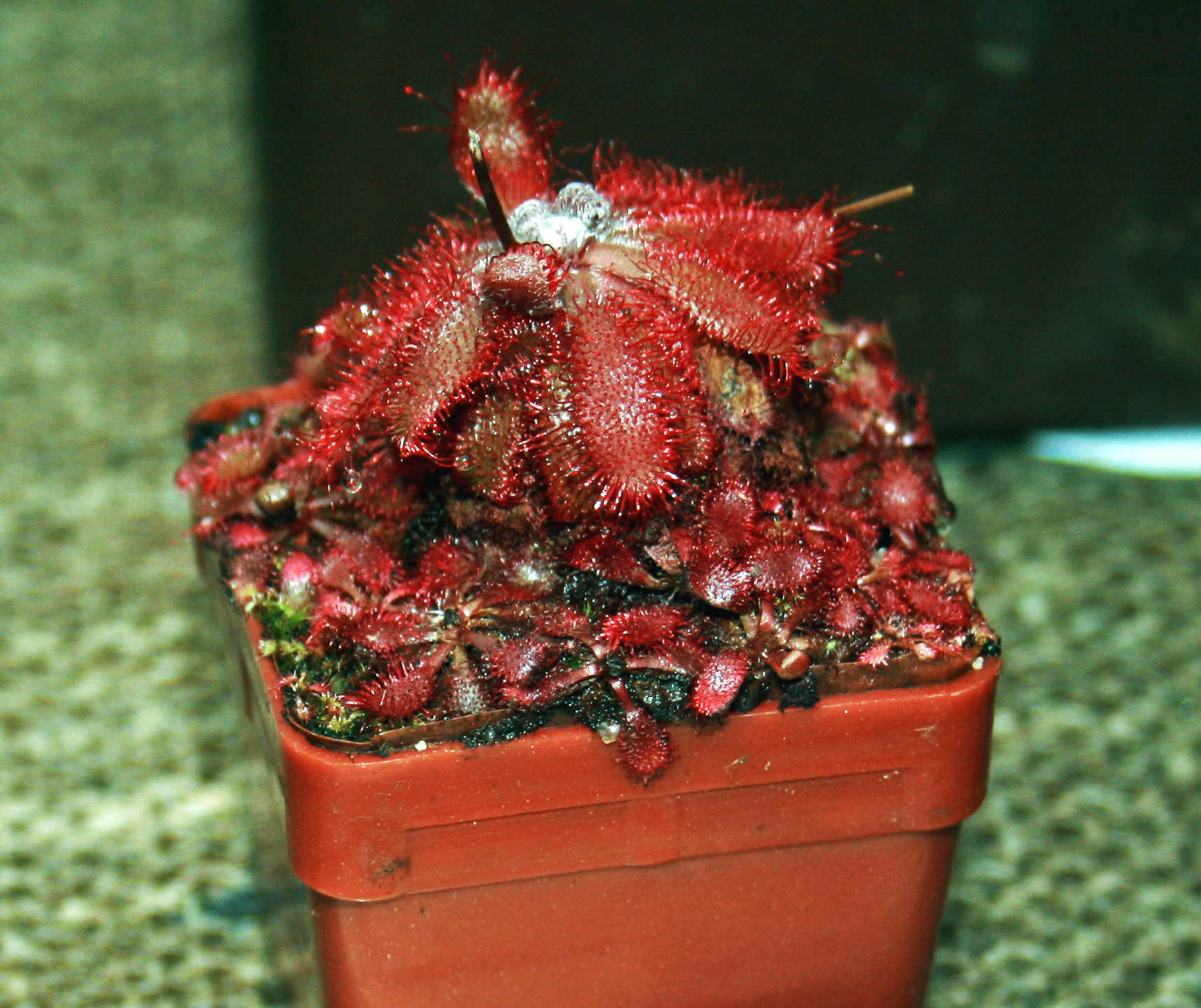 Plant sundew Drosera montana in Fata Morgana Greenhouse, Prague, Troja